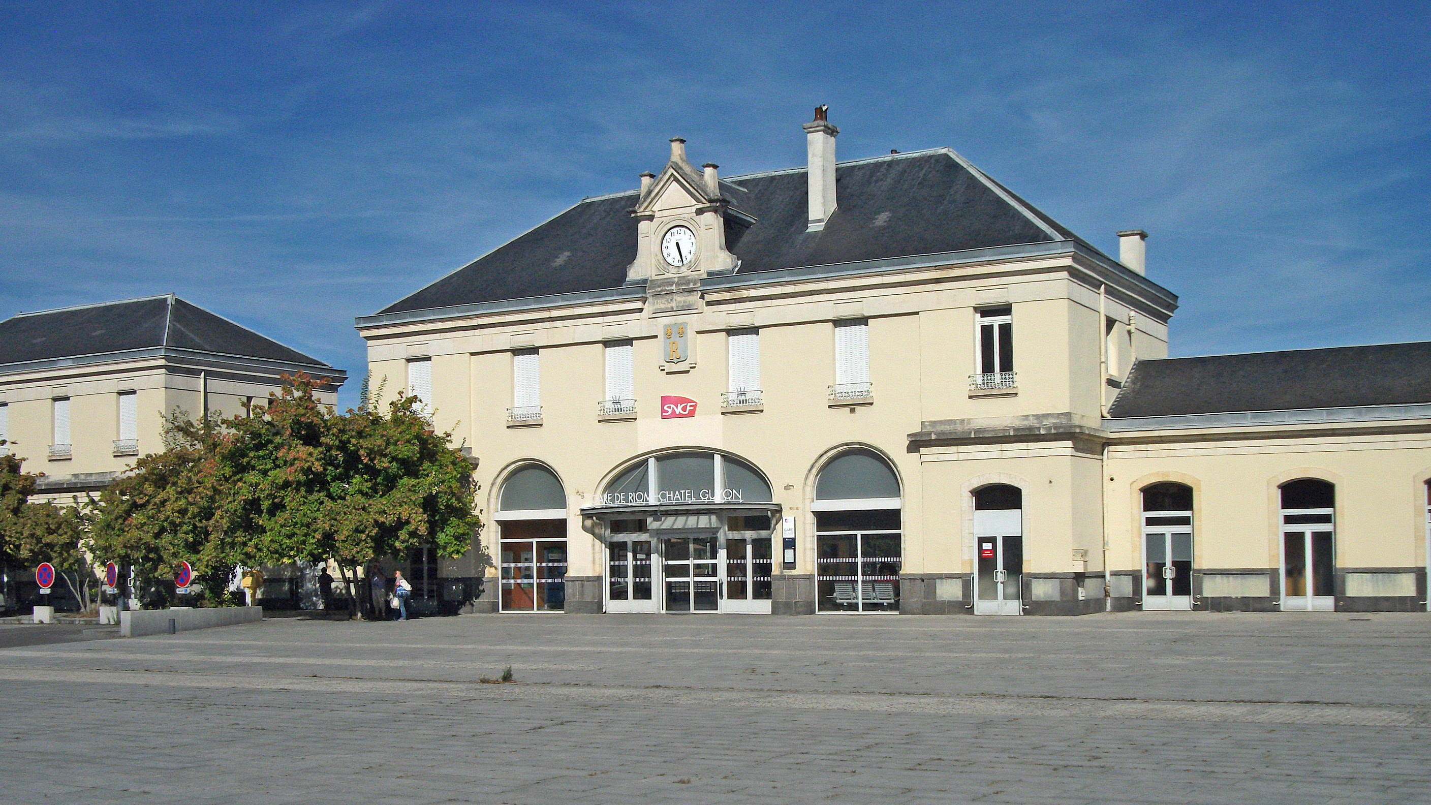 Parvis and facade of Riom - Châtel-Guyon railway station [11519]